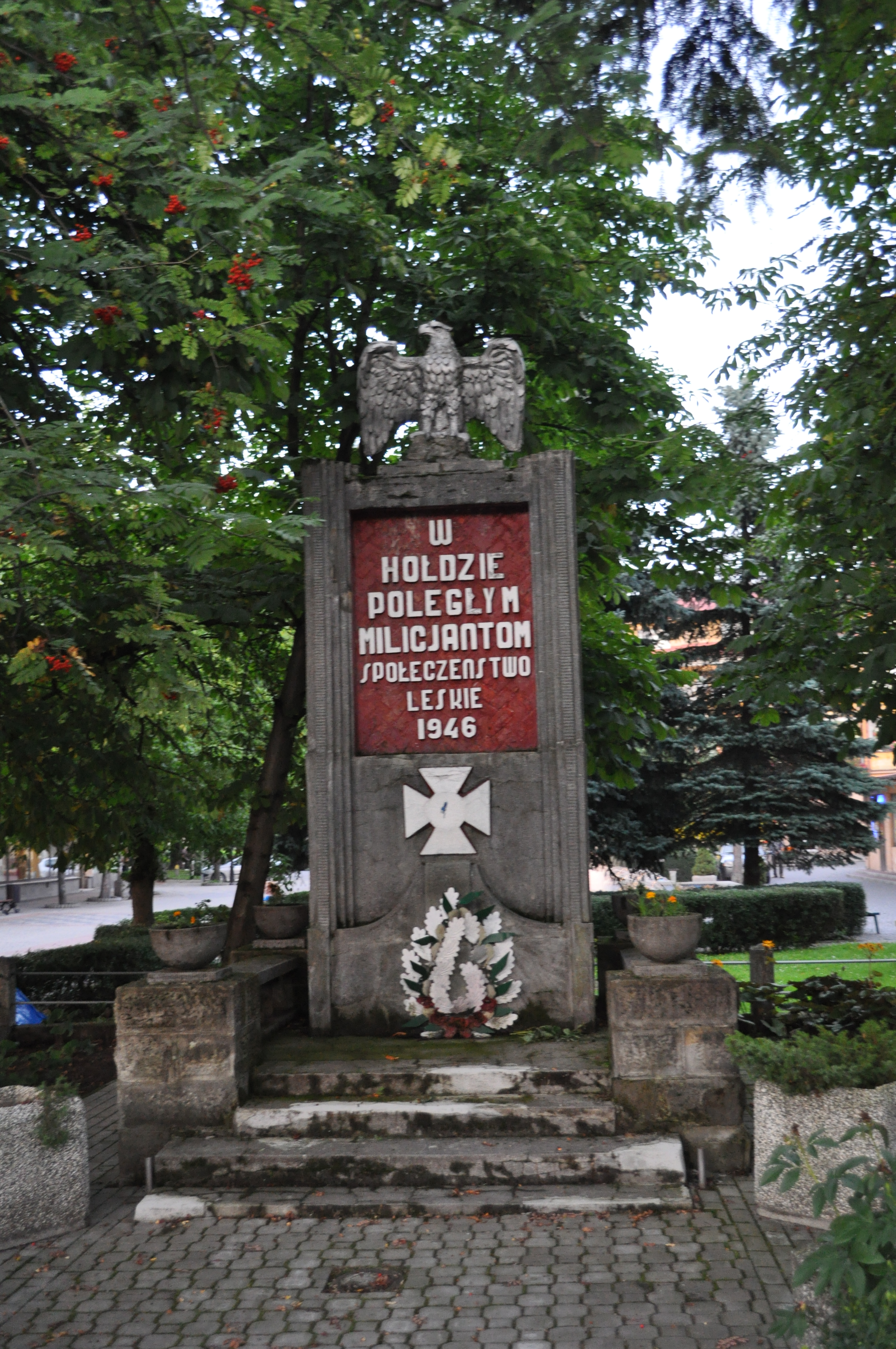 Monument in Lesko